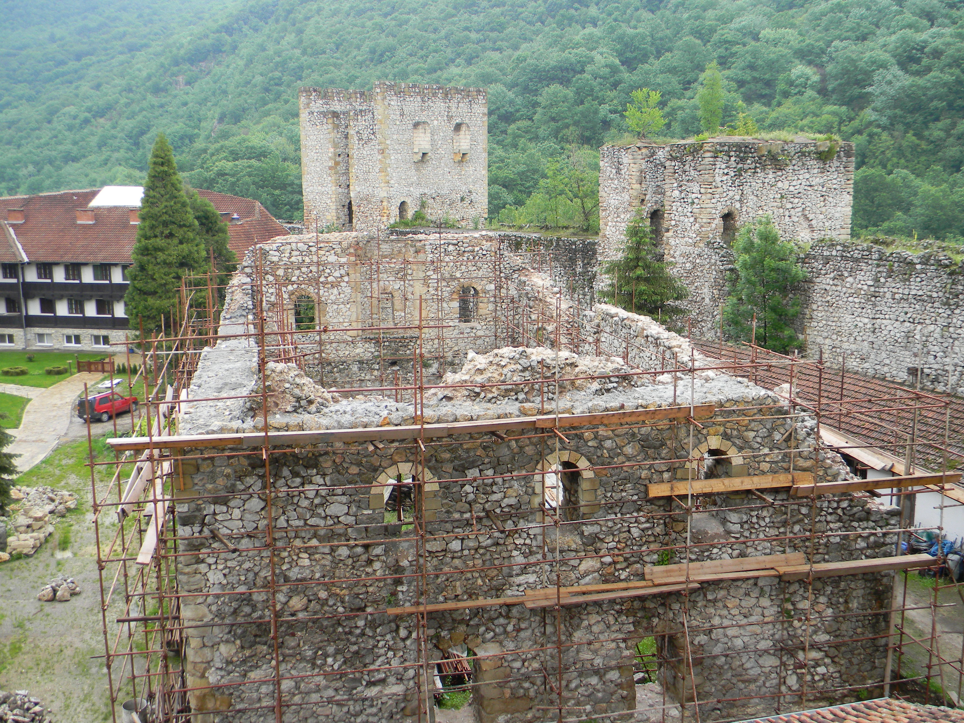 Fortress and Monastery of Manasija, near Despotovac, Serbia